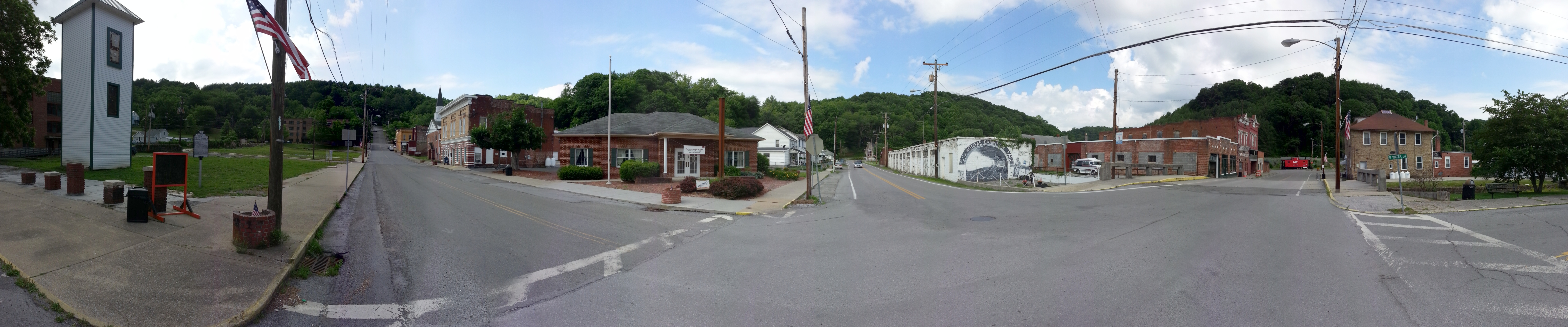 Pocahontas, Virginia, United States.